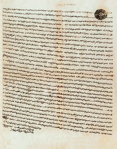 Amen_1857_-_First_page